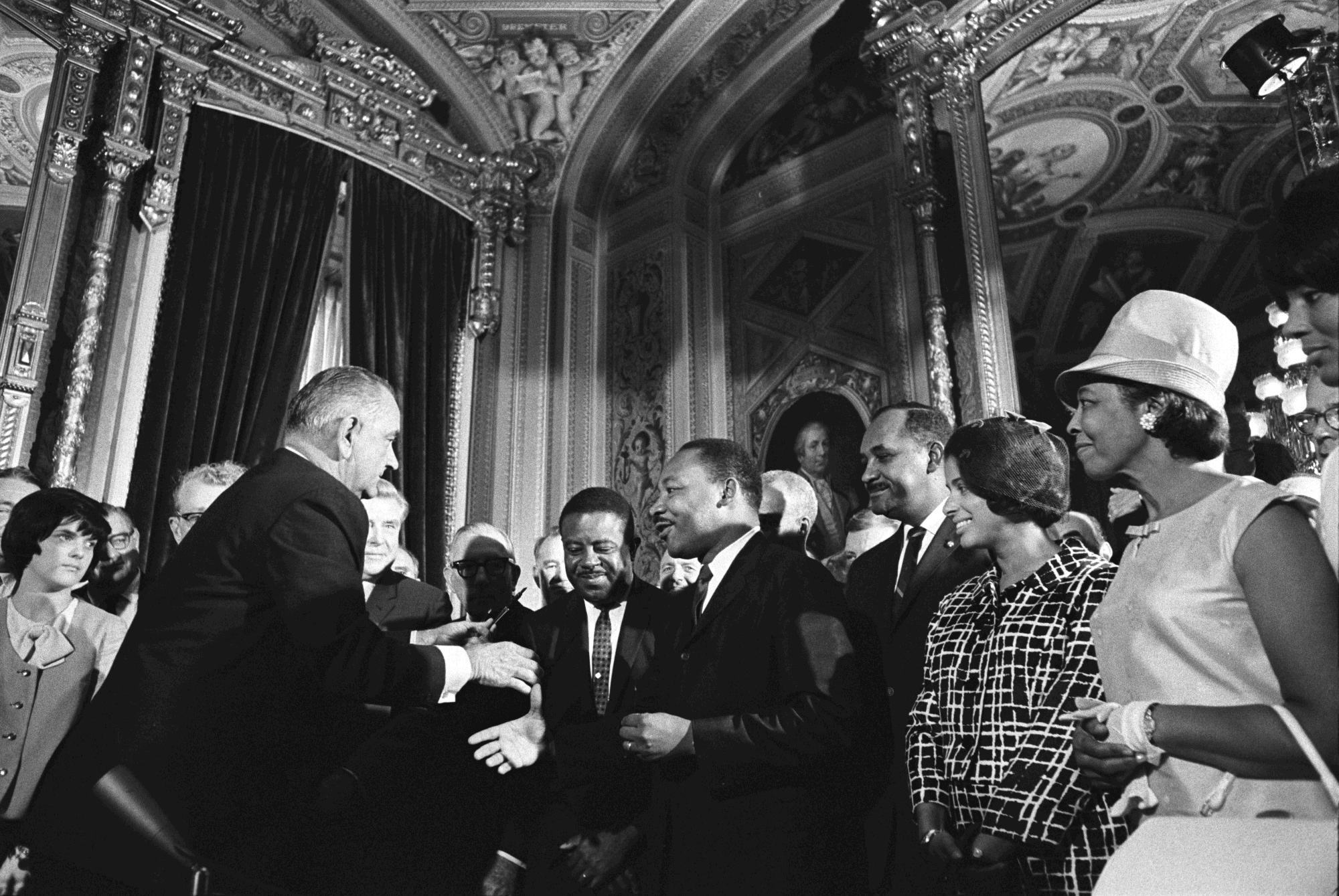 President Lyndon B. Johnson meets with Martin Luther King, Jr. at the signing of the Voting Rights Act of 1965